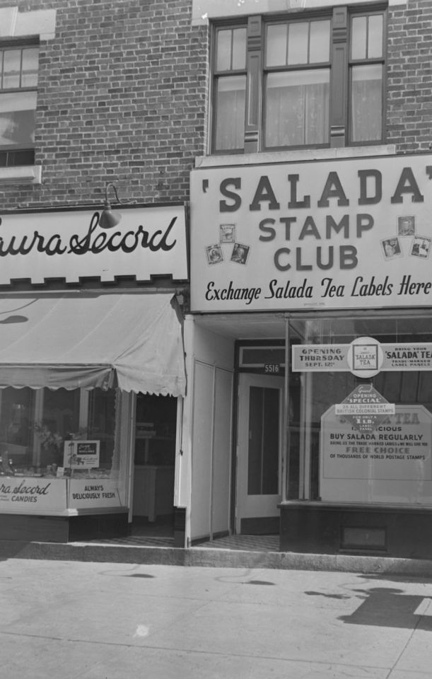 We see the store "Salada Stamp Club" forum to exchange Salada Tea labels with postage stamps of the British colonies. This stamp club is located at 1516 Monkland Avenue in Montreal.